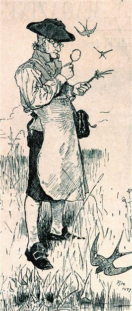 John Bartram (1699-1777), 19th Century illustration